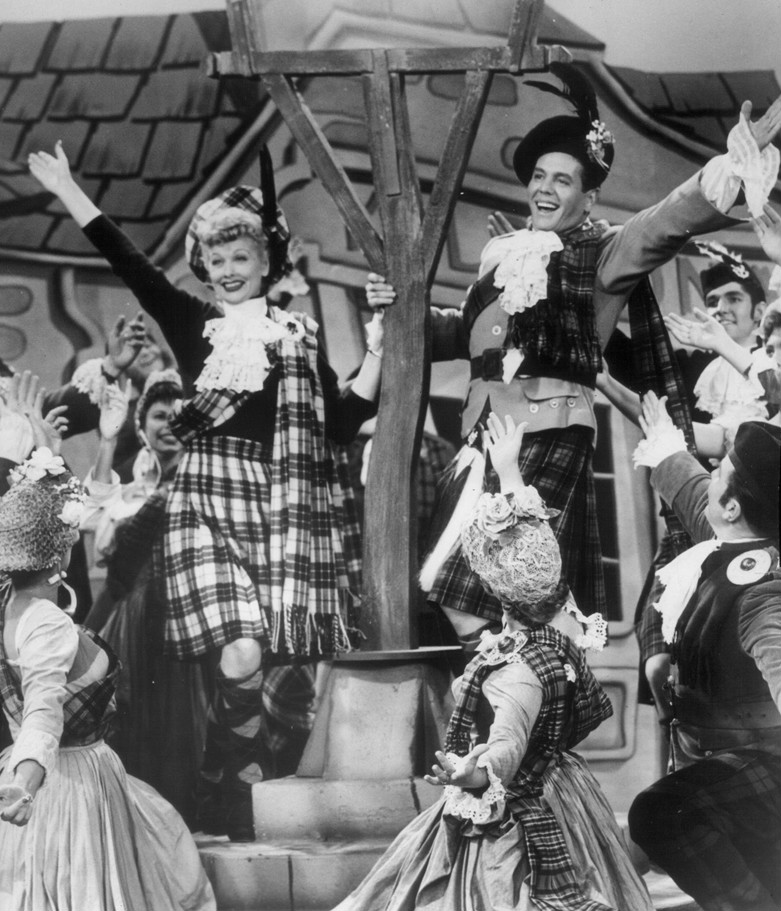 Publicity photo of Lucille Ball and Desi Arnaz in I Love Lucy. Lucy and Ricky in Scotland as part of their European tour shows.